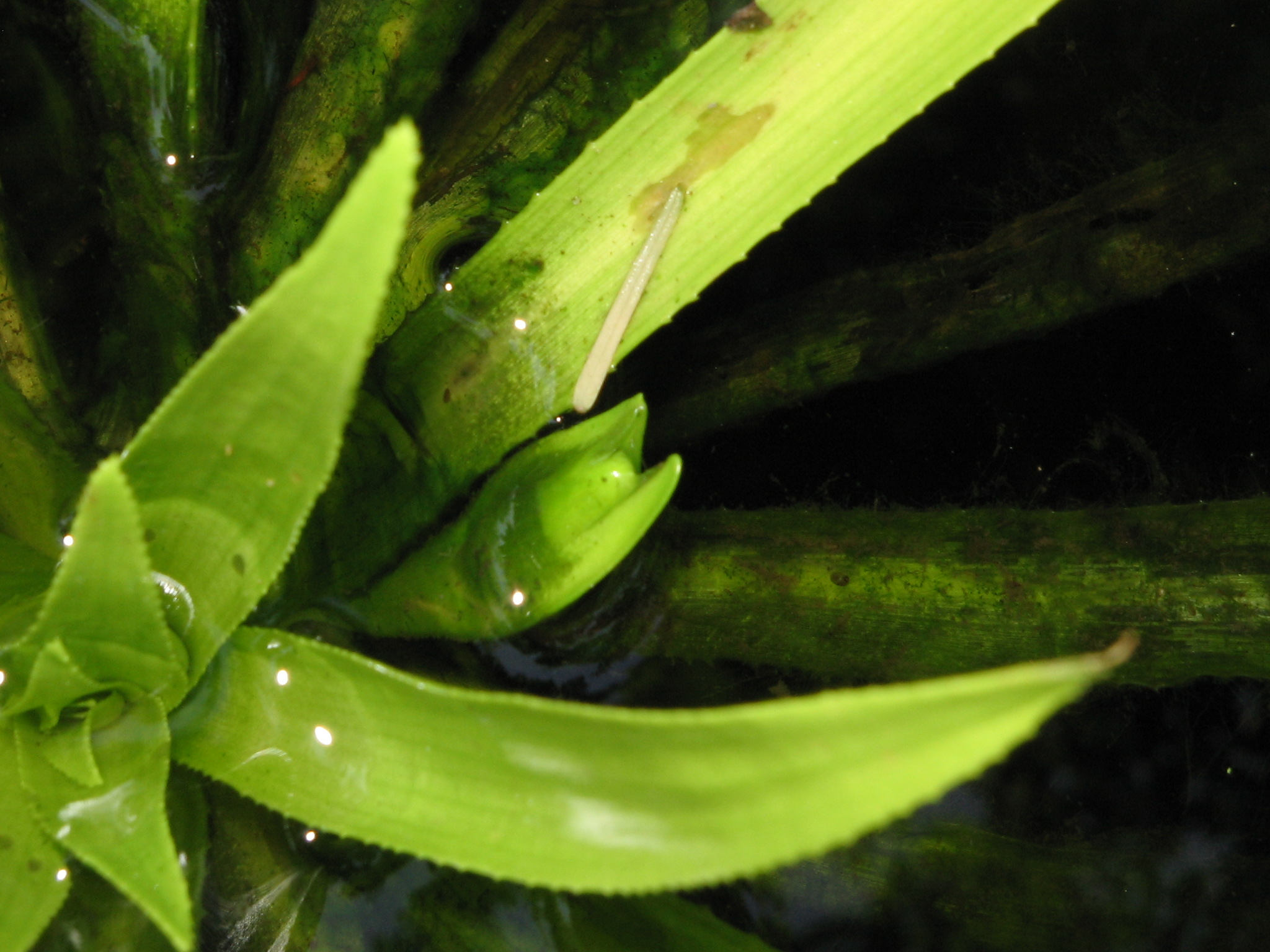 Stratiotes aloides flower bud